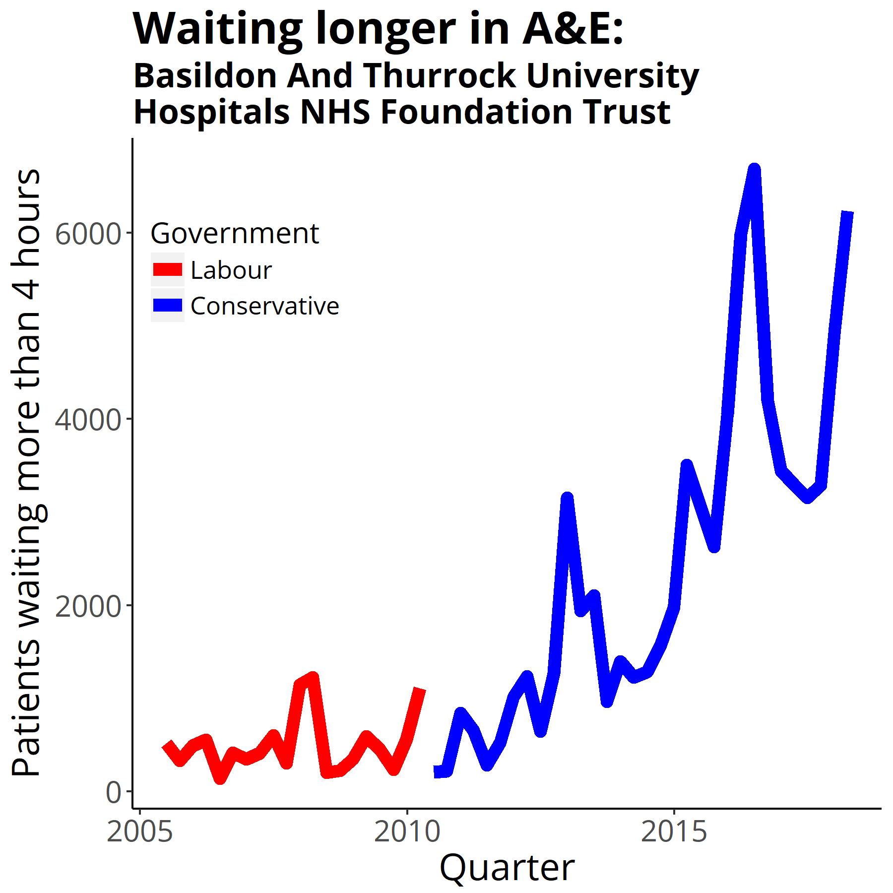 Four-hour target in the emergency department quarterly figures from NHS England Data from